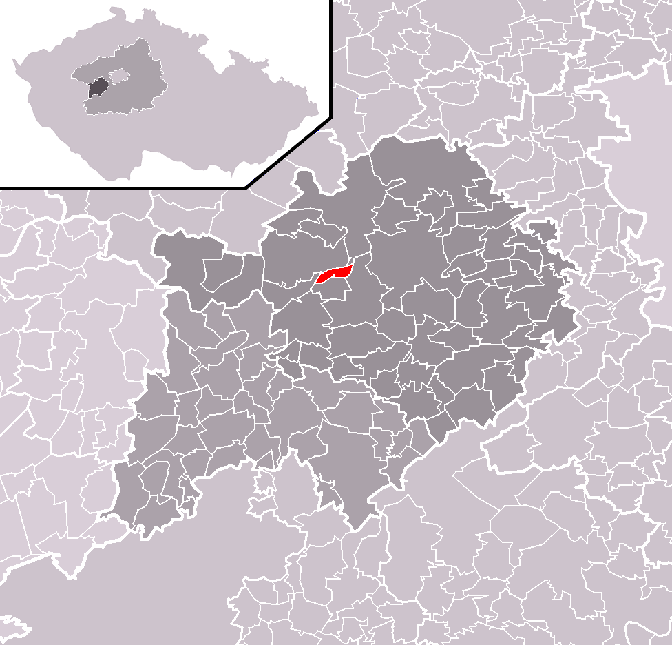 Location of Trubská municipality within Beroun District and administrative area of Beroun as a Municipality with Extended Competence.